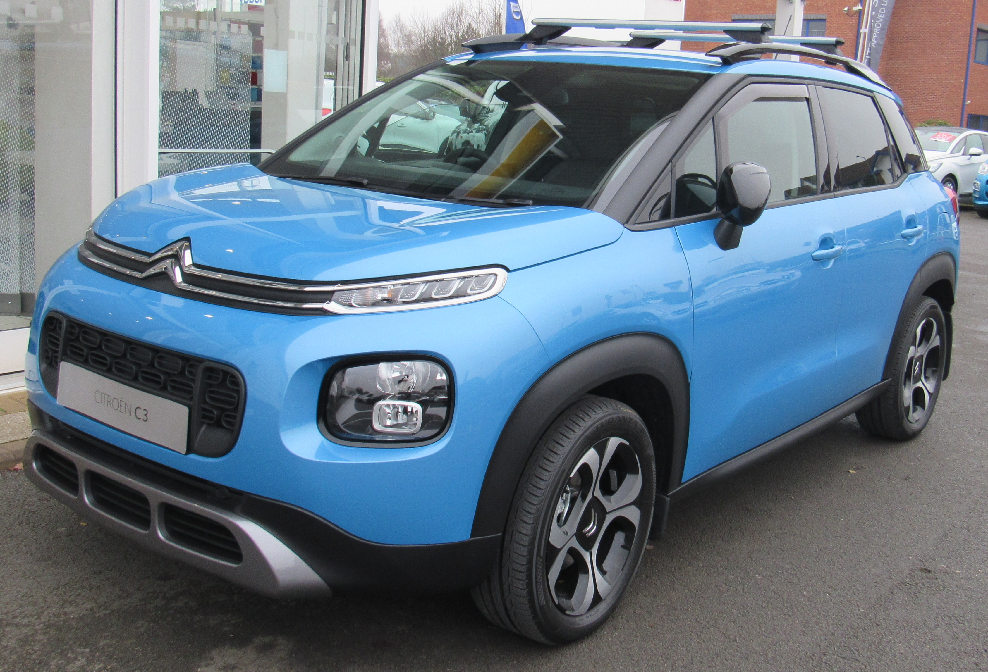 2017 Citroen C3 Aircross PureTech 1.2 Front Taken in Leamington Spa